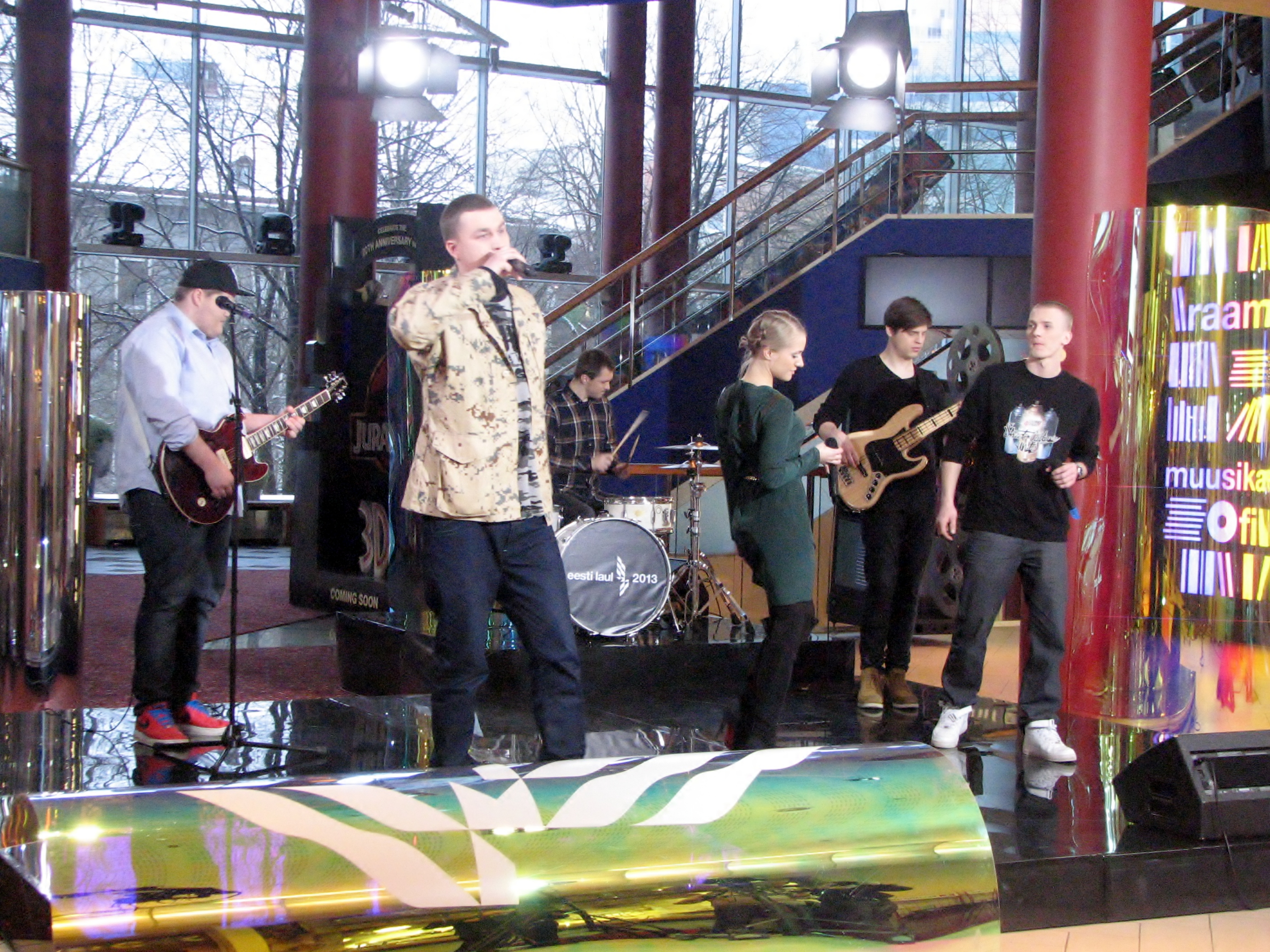 Estonian band Põhja-Tallinn performing in Solaris centre